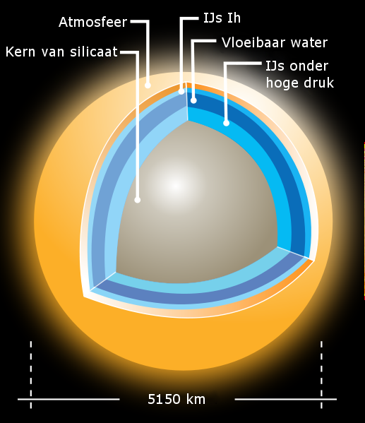 The internal structure of Titan, the moon of Saturn.